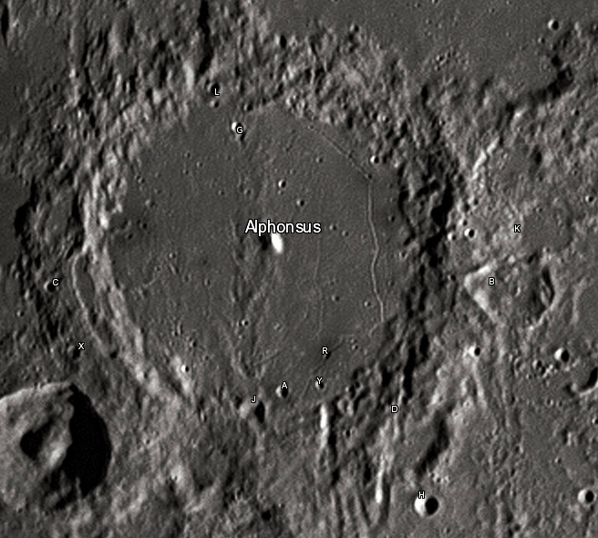 Alphonsus lunar crater as seen from Earth with satellite craters labeled